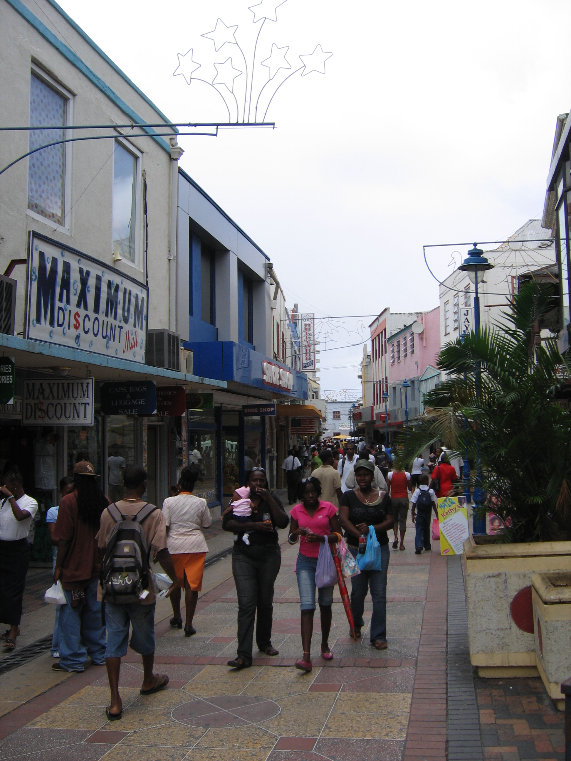 Bridgetown, Saint Michael, Barbados.